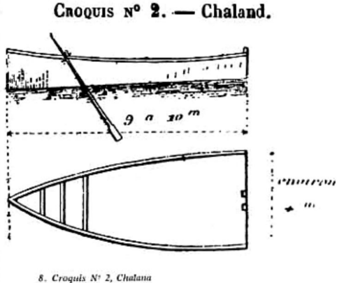 embarcación utilizada para el desembarco en curayaco